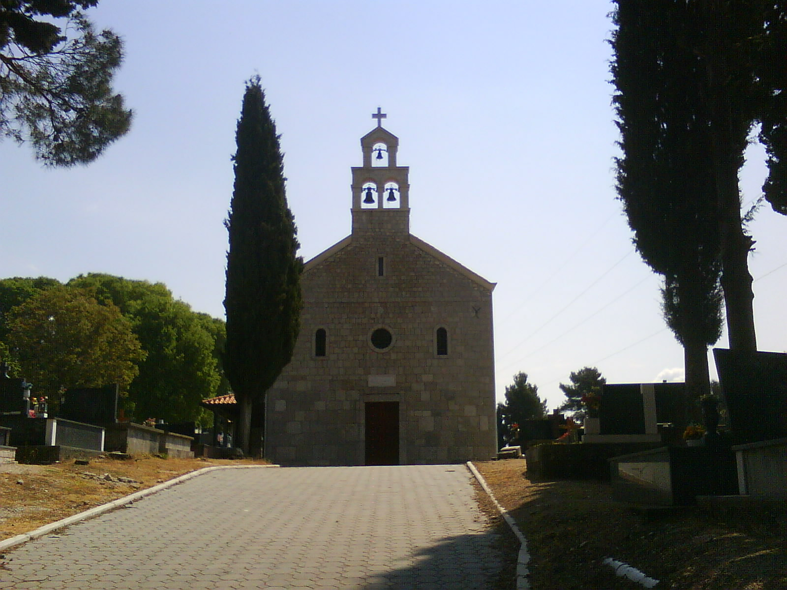 Roman catholic church of St. Stephen in Sovići